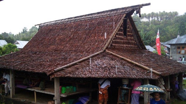 Gamtala village, Jailolo, West Halmaherat.